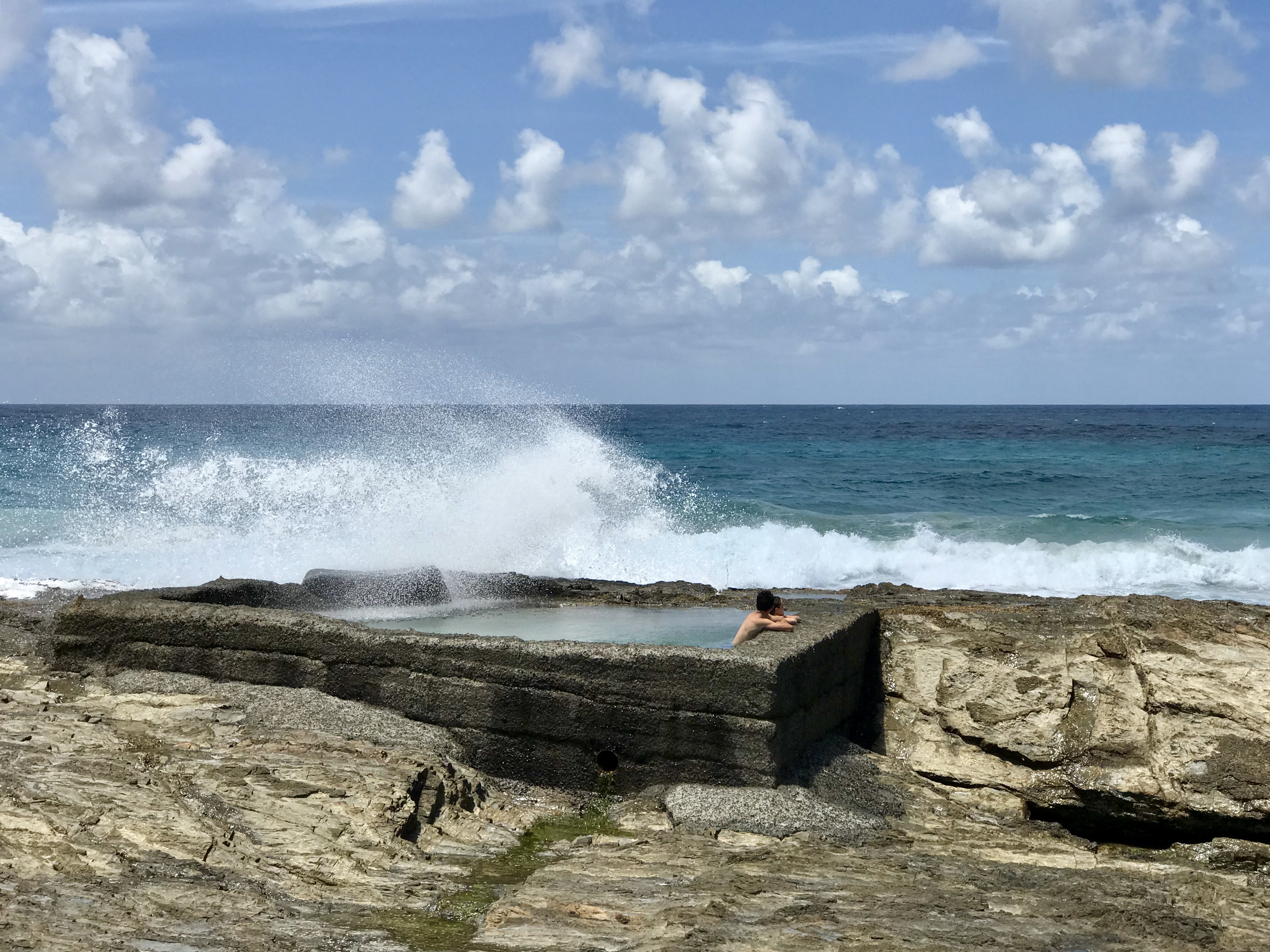 Snapper Rocks Sea Baths, Coolangatta, Queensland